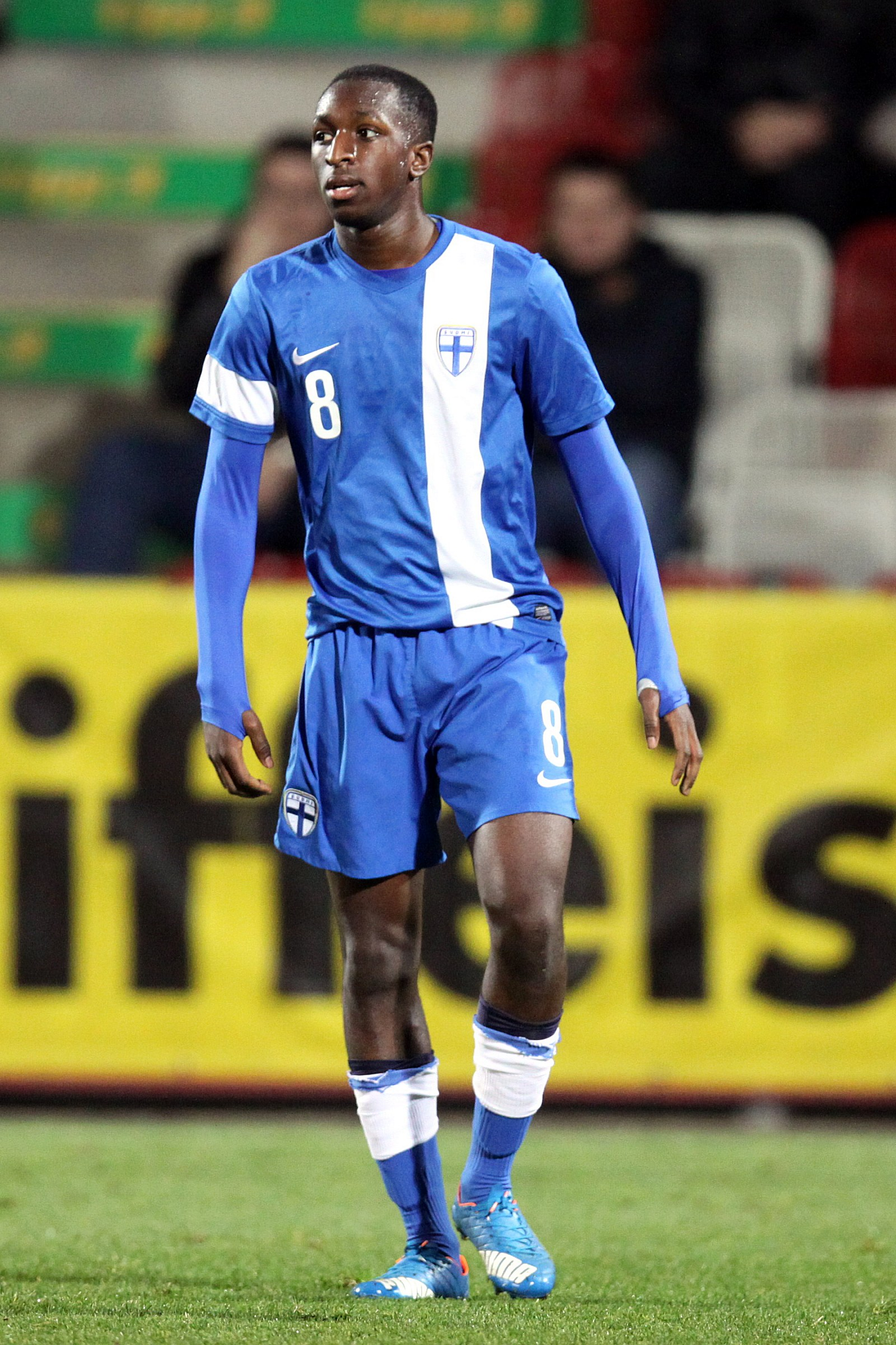 2017 UEFA European Under-21 Championship qualification – Austria U-21 (red shirts) vs. :en:Finland national under-21 football team |Finnland U-21 (blue shirts) 2-0 (0-0) – 2015-11-13 in Vienna, Austria Arena – The photo shows Glen Kamara.